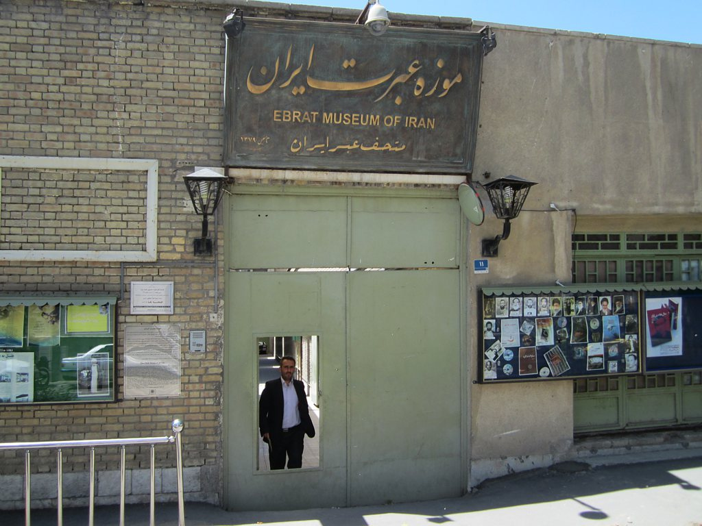 The Ebrat Museum of Iran in Tehran is a former prison used by the last shah's security forces. Scenes of torture are recreated using waxwork dummies.